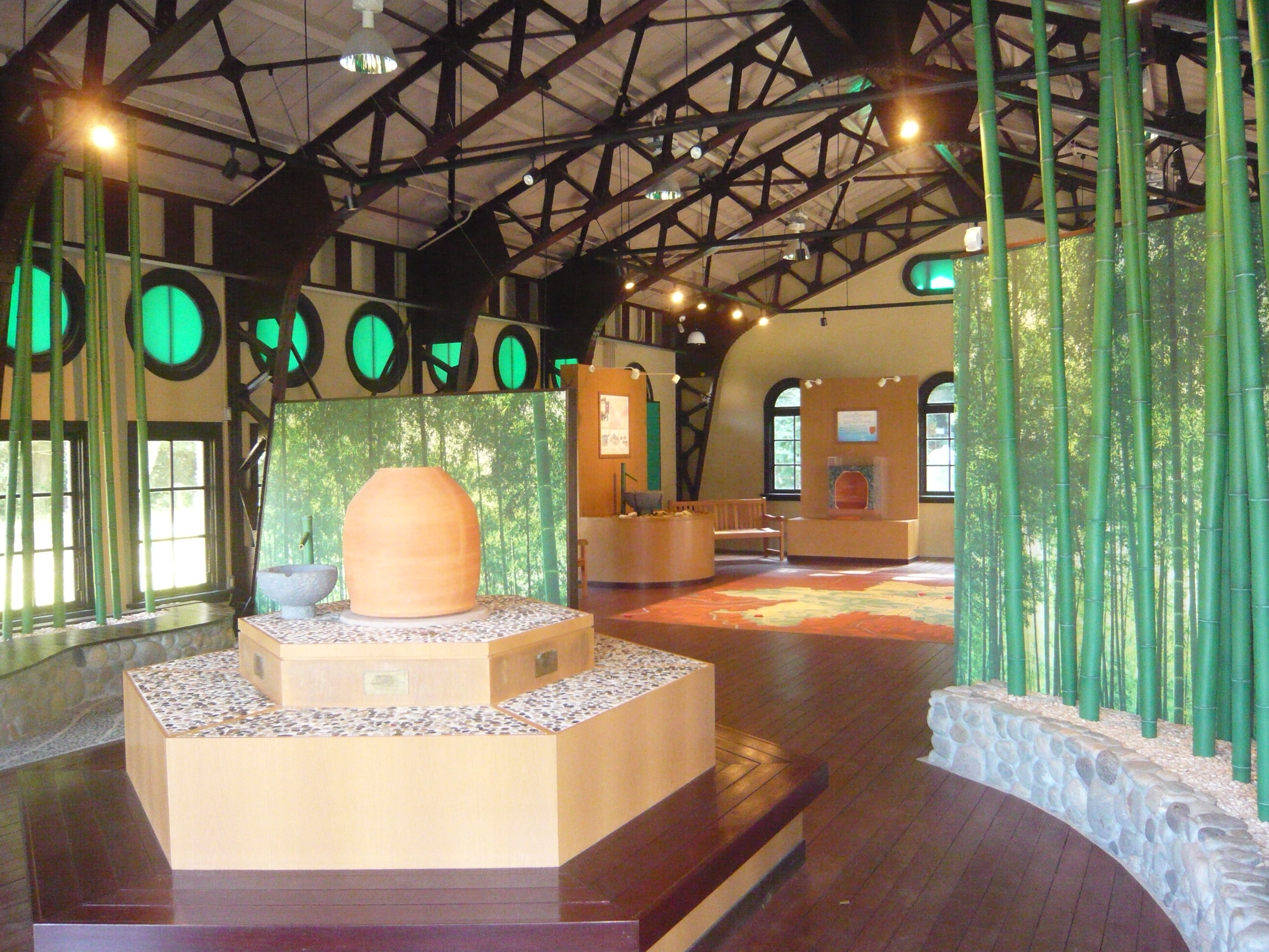 Water Experience learning Museum（水の体験学習館）,Gifu,Gifu,Japan（岐阜県岐阜市）で撮影。